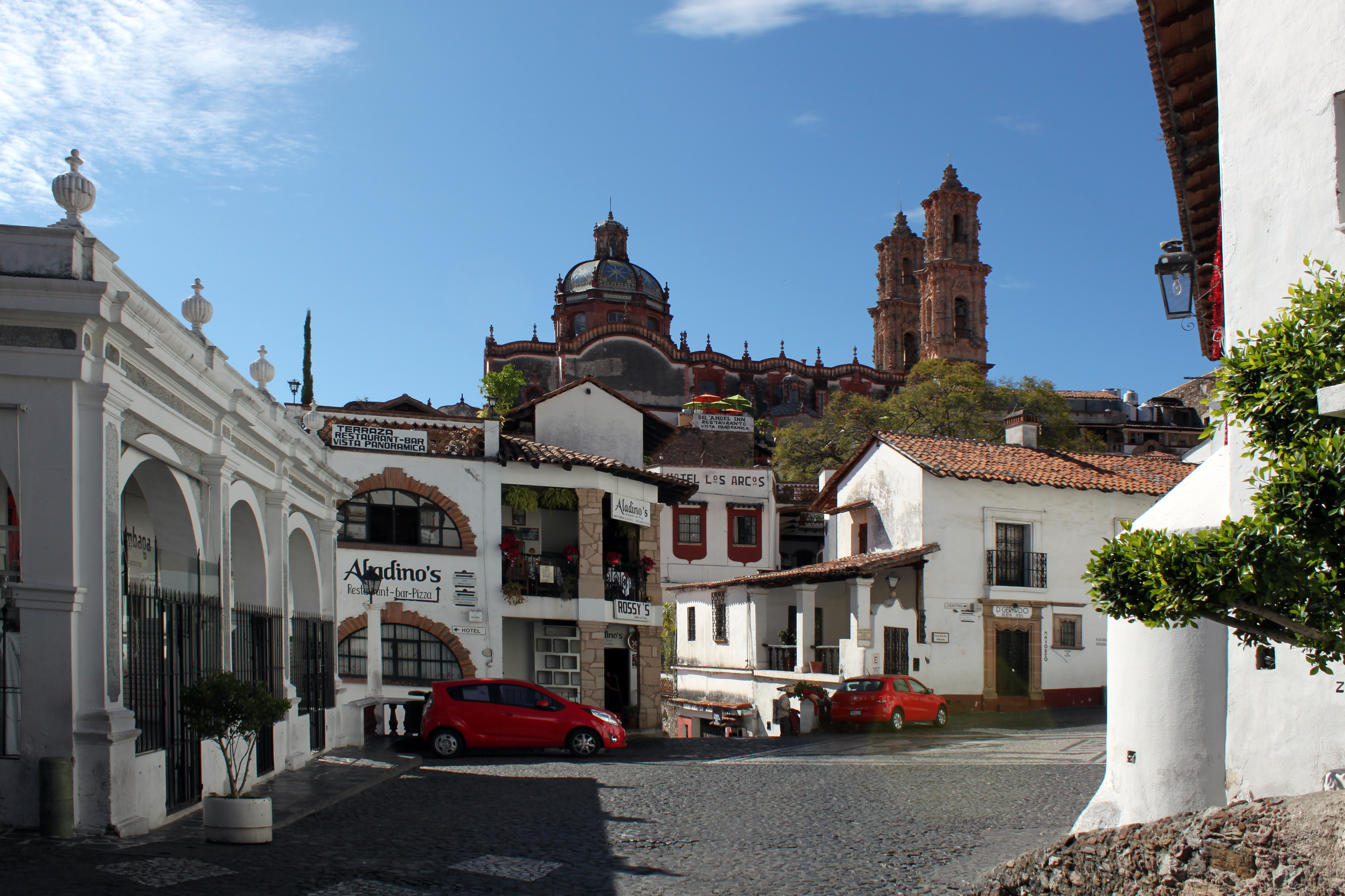 Street scene in Taxco, Guerrero State, Mexico